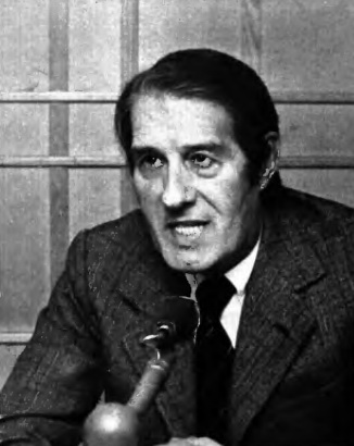 Italian journalist Roberto Bortoluzzi in the studio of the Italian radio program Tutto il calcio minuto per minuto, Rome